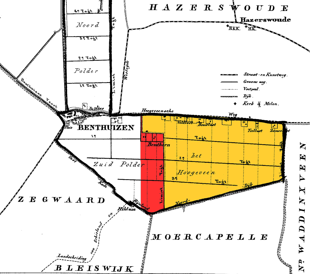 Former municipalities of Benthorn (red) and Hogeveen (yellow) in South Holland, the Netherlands, on a map of Benthuizen in 1868. Based on Kadaster maps at